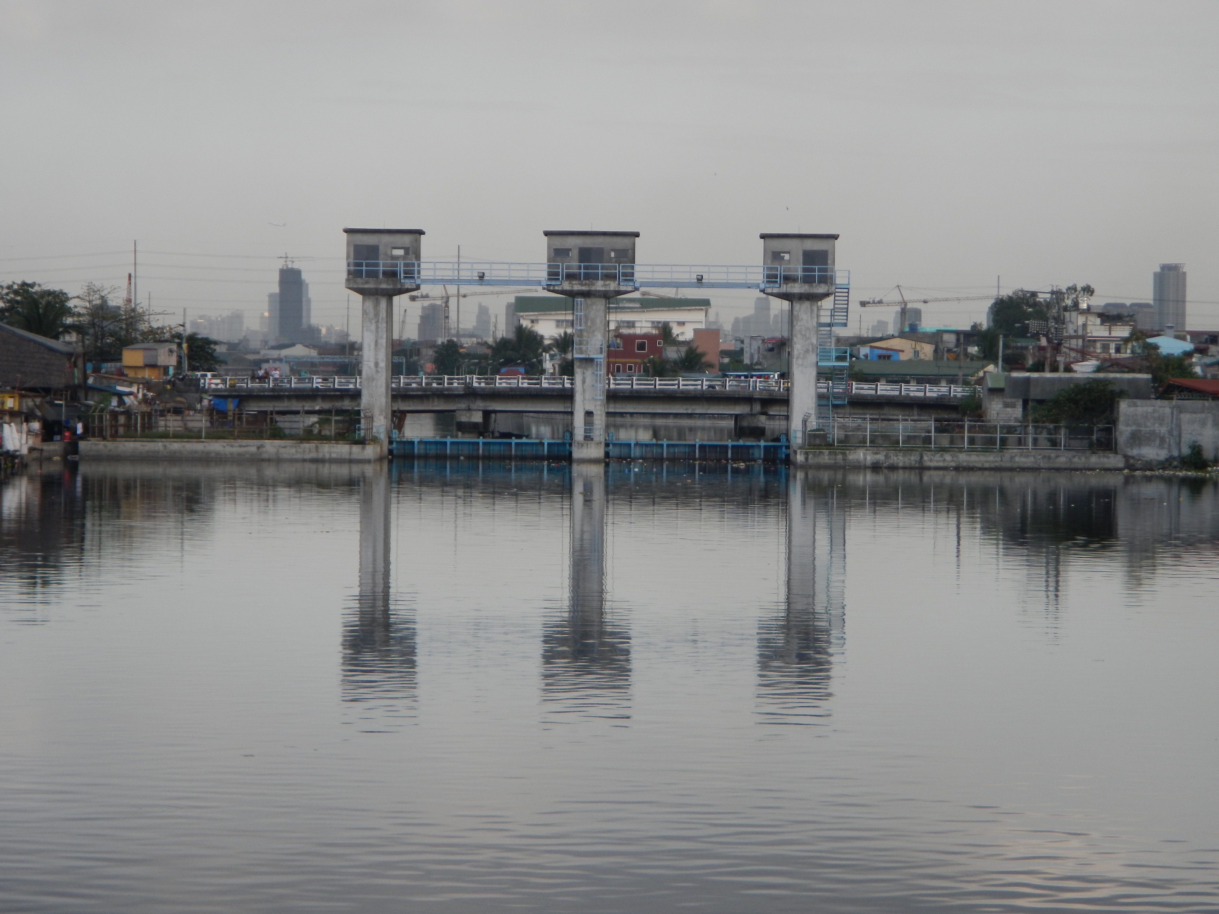 The Navotas flood gate on the Navotas River, part of the Camanava Project on the Navotas-Malabon-Tullahan-Tenejeros River system.